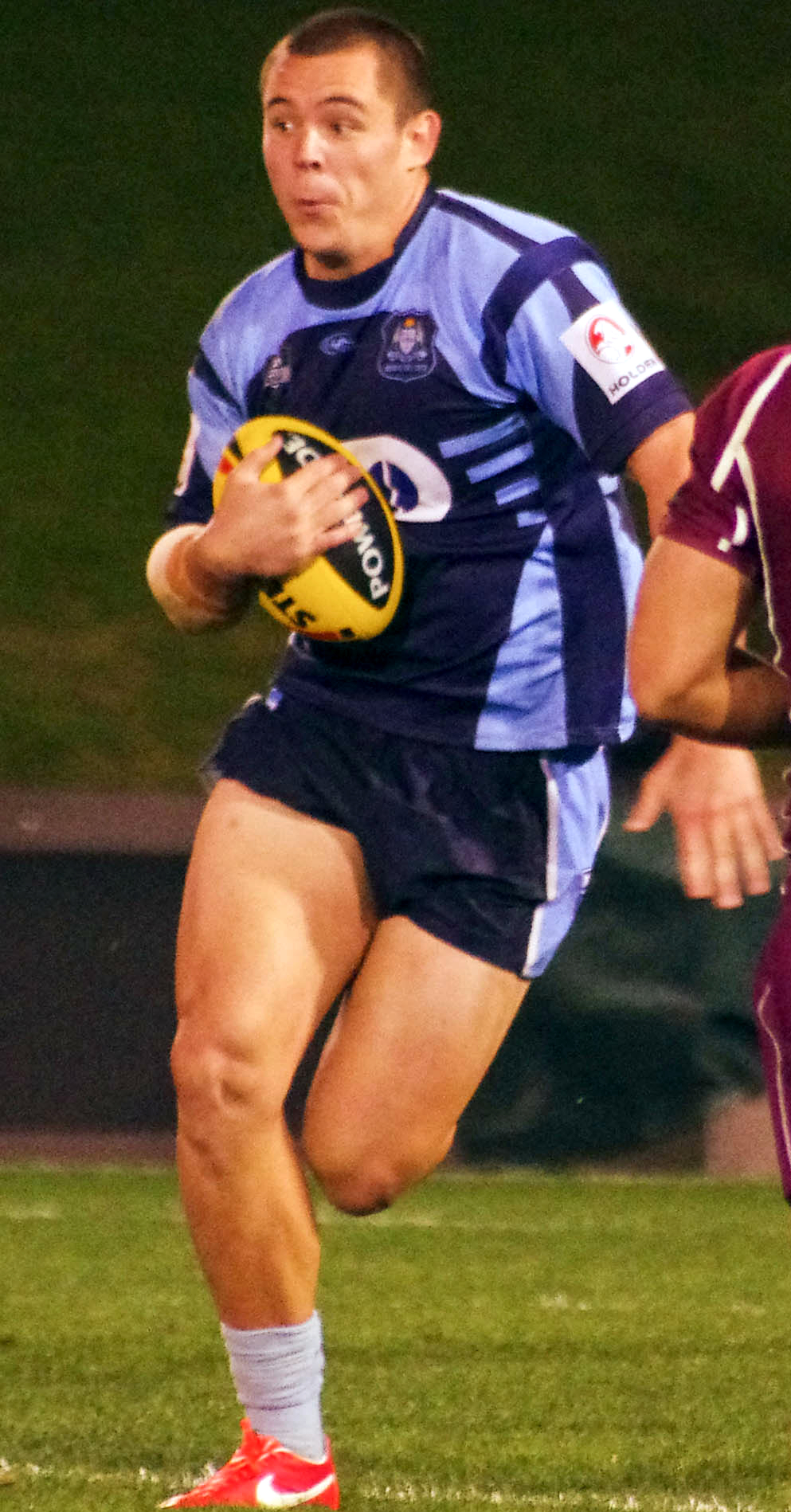 David Klemmer